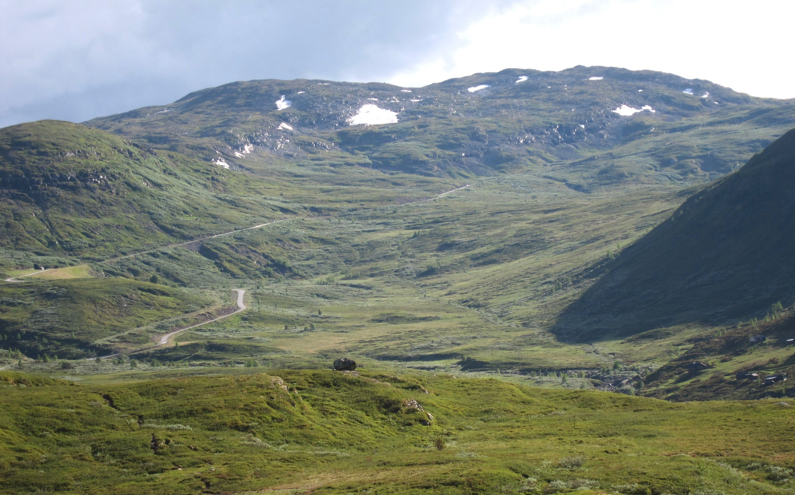 Tindevegen mountain road seen from Turtagrø, Luster, Sogn, Norway